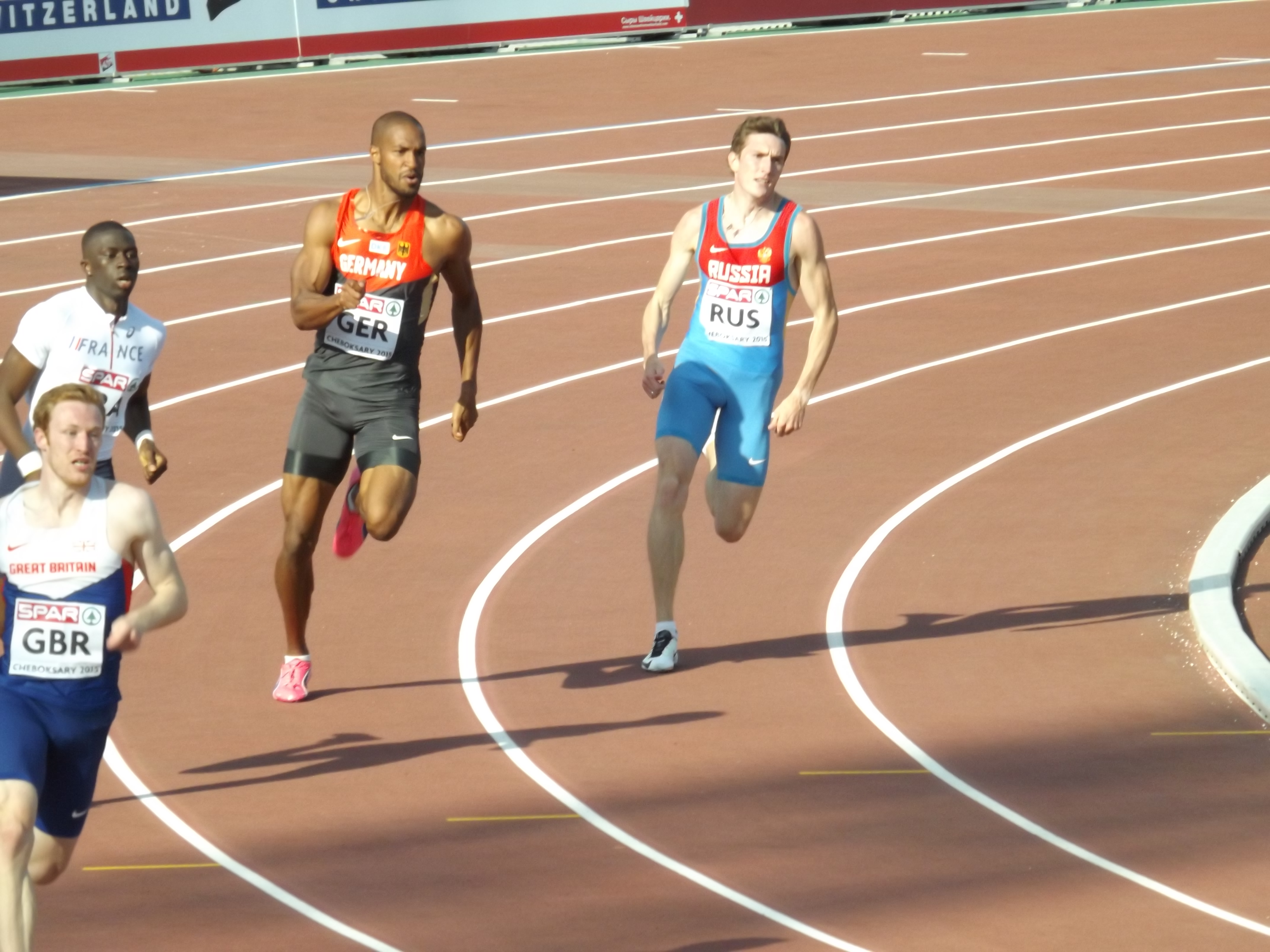 Men 400 metres heat during 2015 European Team Champioships